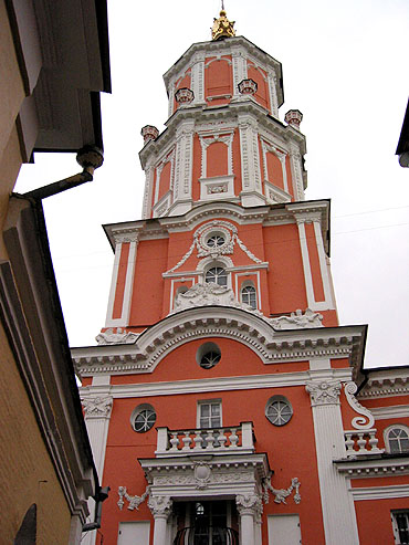 Menshikov Tower in Moscow (1705-07).